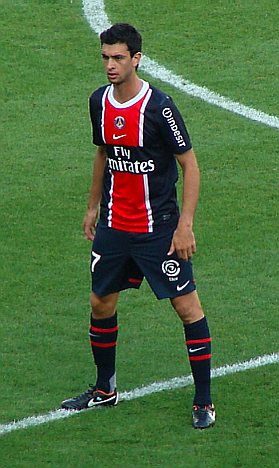 Javier Pastore first match in Paris (PSG / Valenciennes)